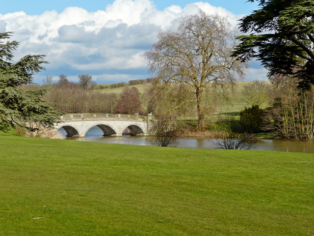 Compton Verney The Adam Bridge